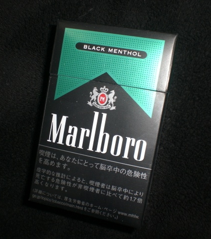 Marboro Menthol Black (Japan Only)